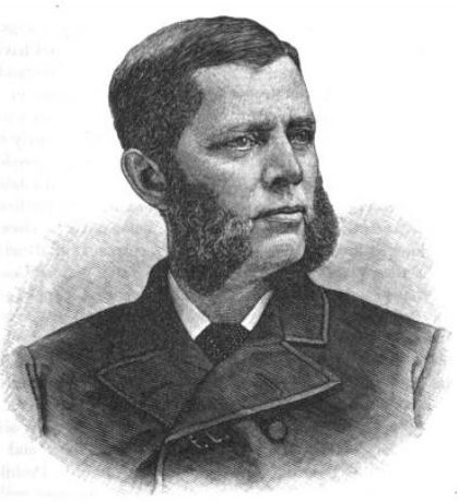 Cornelius C. Jadwin, Pennsylvania Congressman